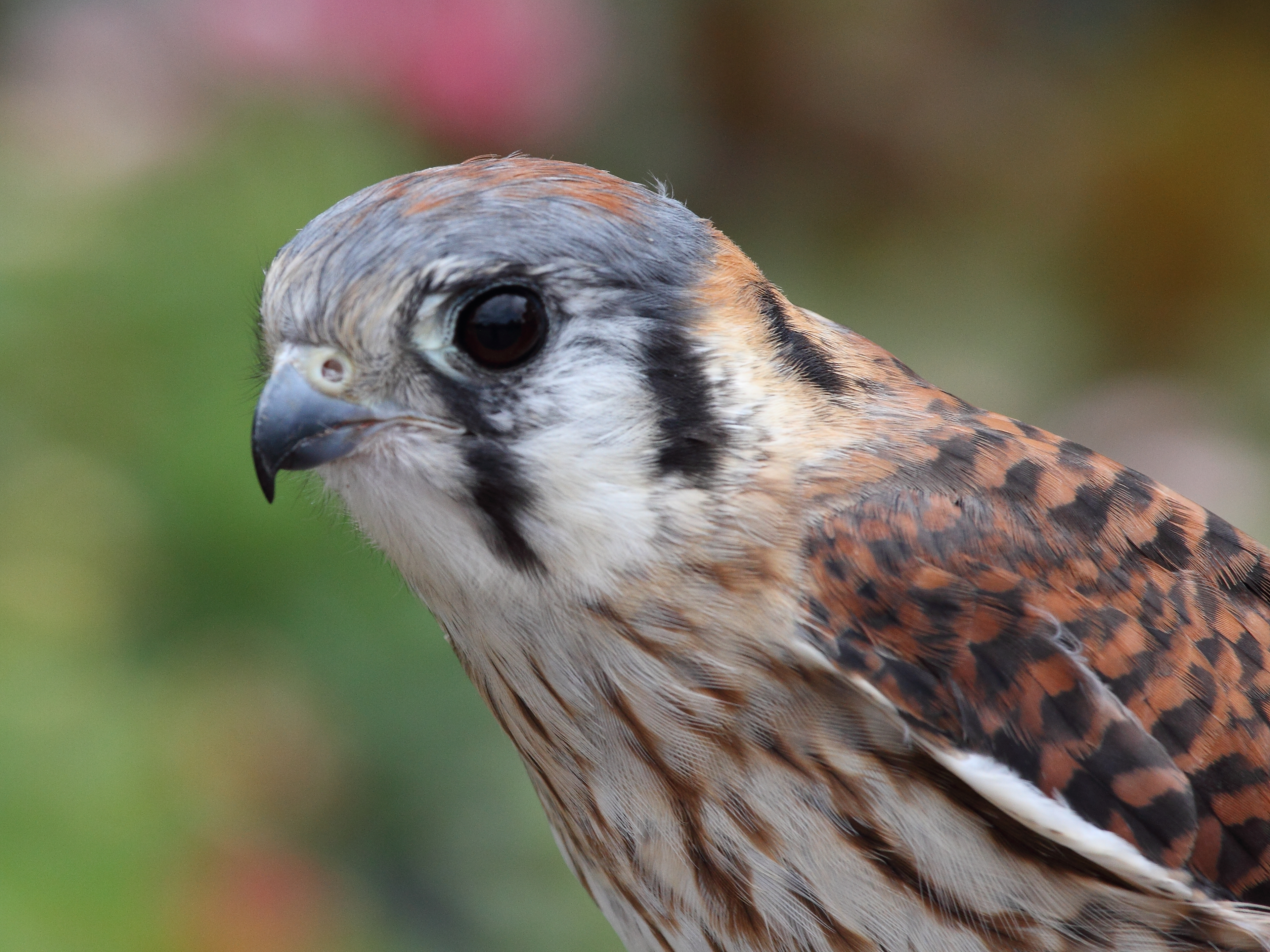 Taken at Cincinnati Zoo. Photo by Greg Hume